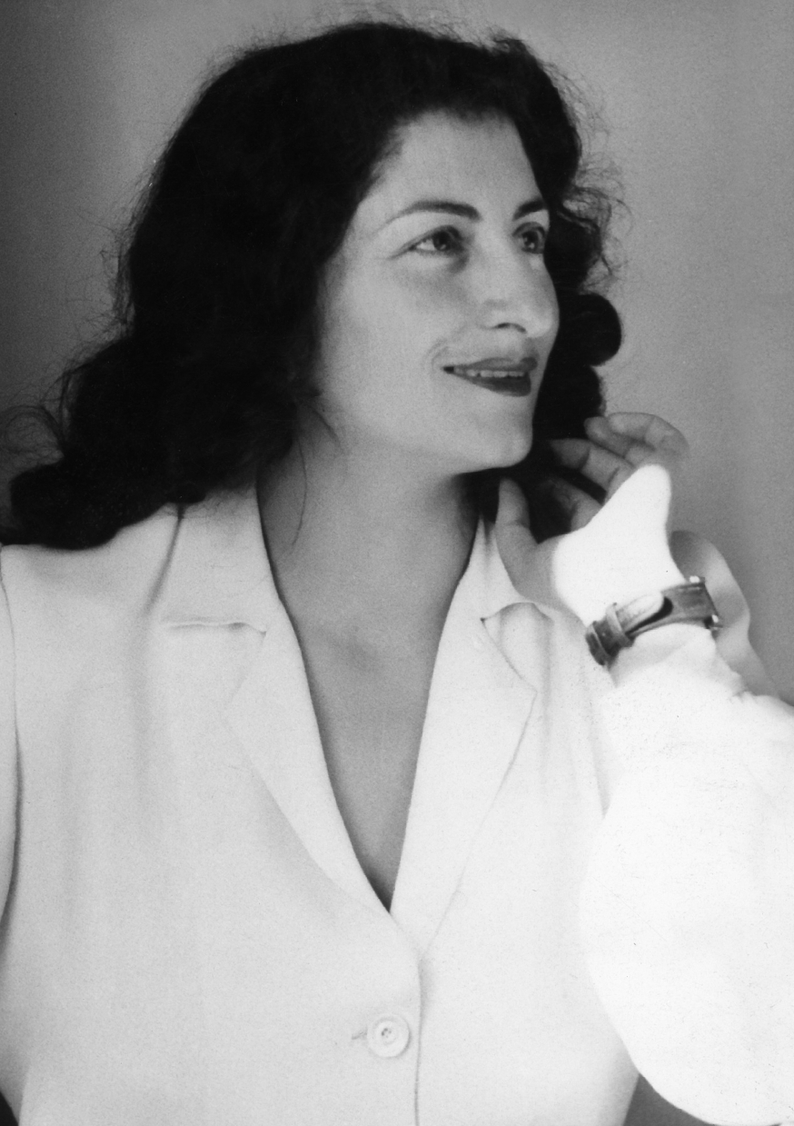 A picture of Maryam Farman Farmaian (Firouz) from the early 50s